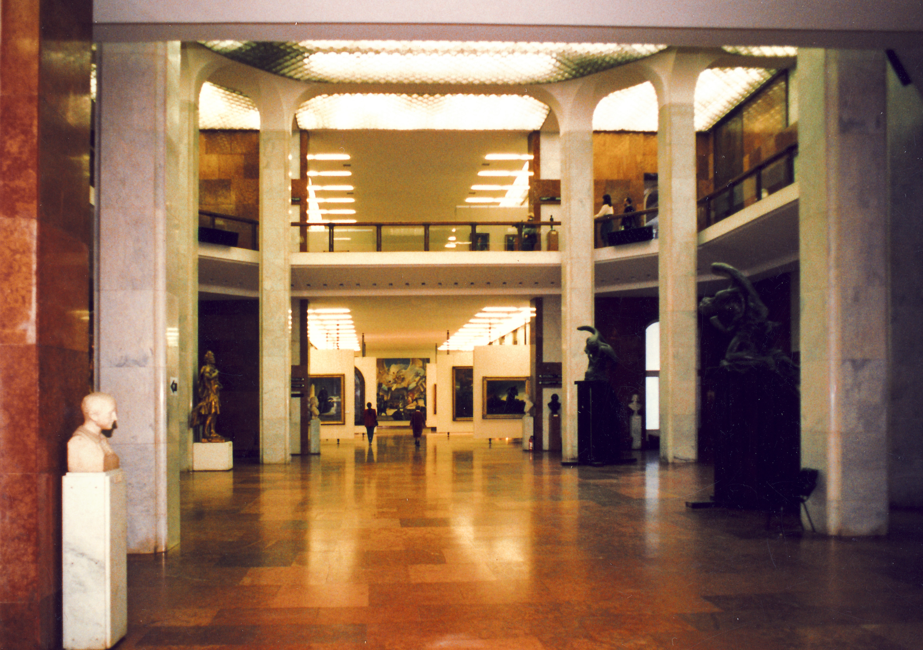 Interior of Hungarian National Gallery. Budapest.